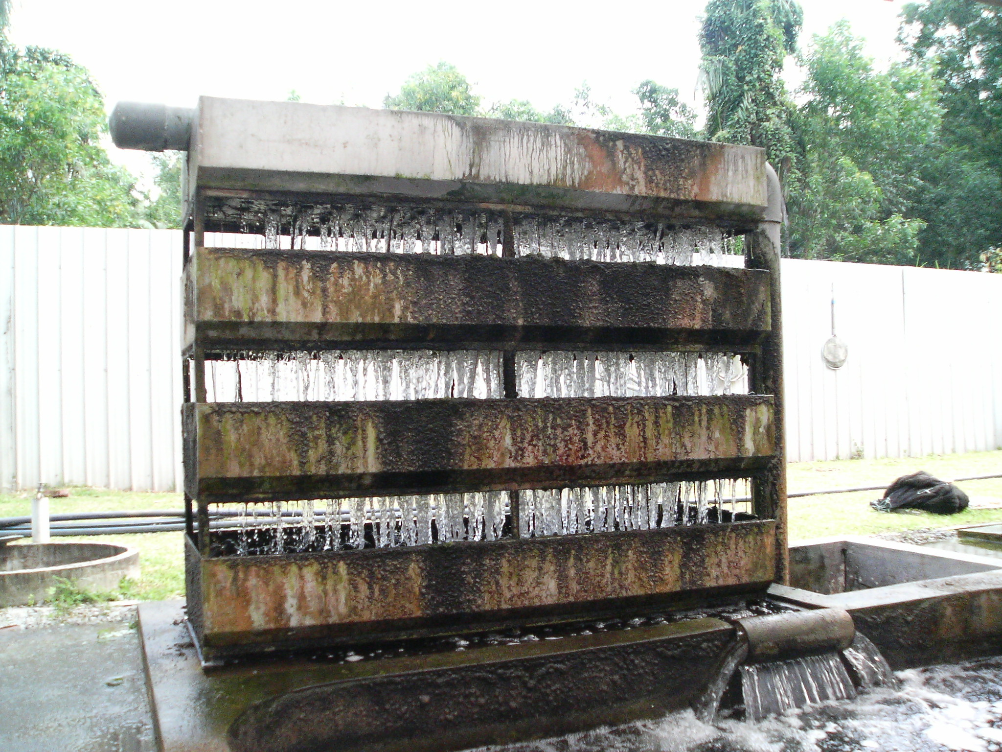 Koi Pond Trickle Filter